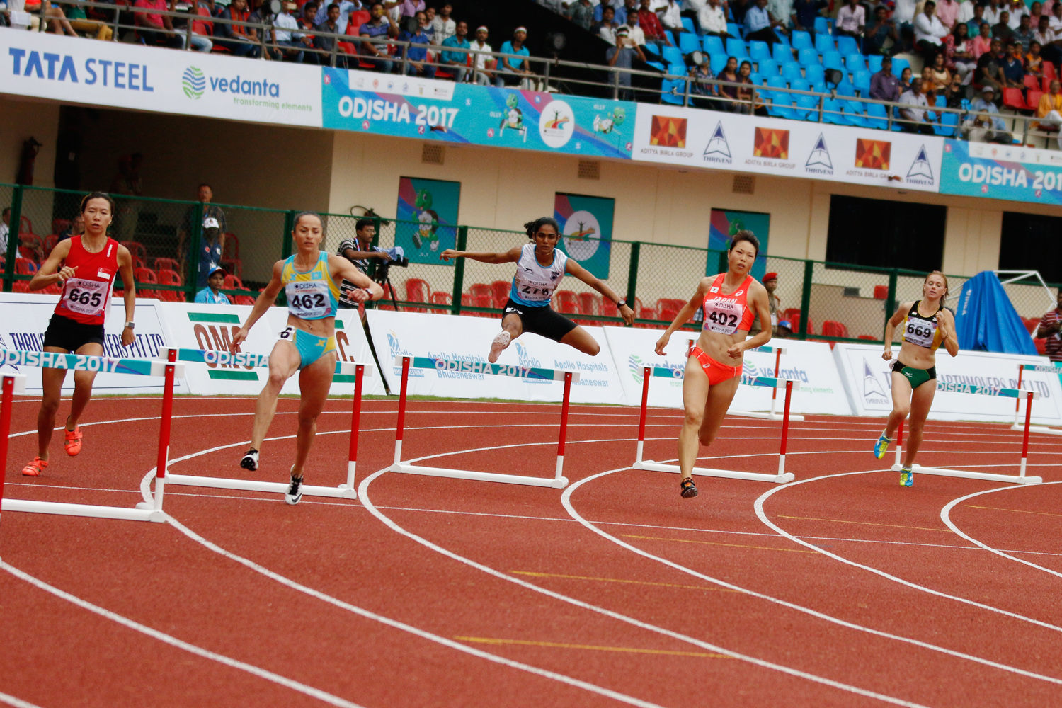 from the 22nd Asian Games in Odisha. 2017 Asian Athletics Championships. 6 to 9 July 2017 at the Kalinga Stadium in Bhubaneswar 3 Kristina Pronzhenko 699 TAJIKISTAN 4 Manami Kira 402 JAPAN 5 Arpitha M. 278 INDIA 6 Merjen Ishangulyyeva 462 KAZAKHSTAN 7 Chui Ling Goh 665 SINGAPORE 8 Jutamas Khonkham 715 THAILAND